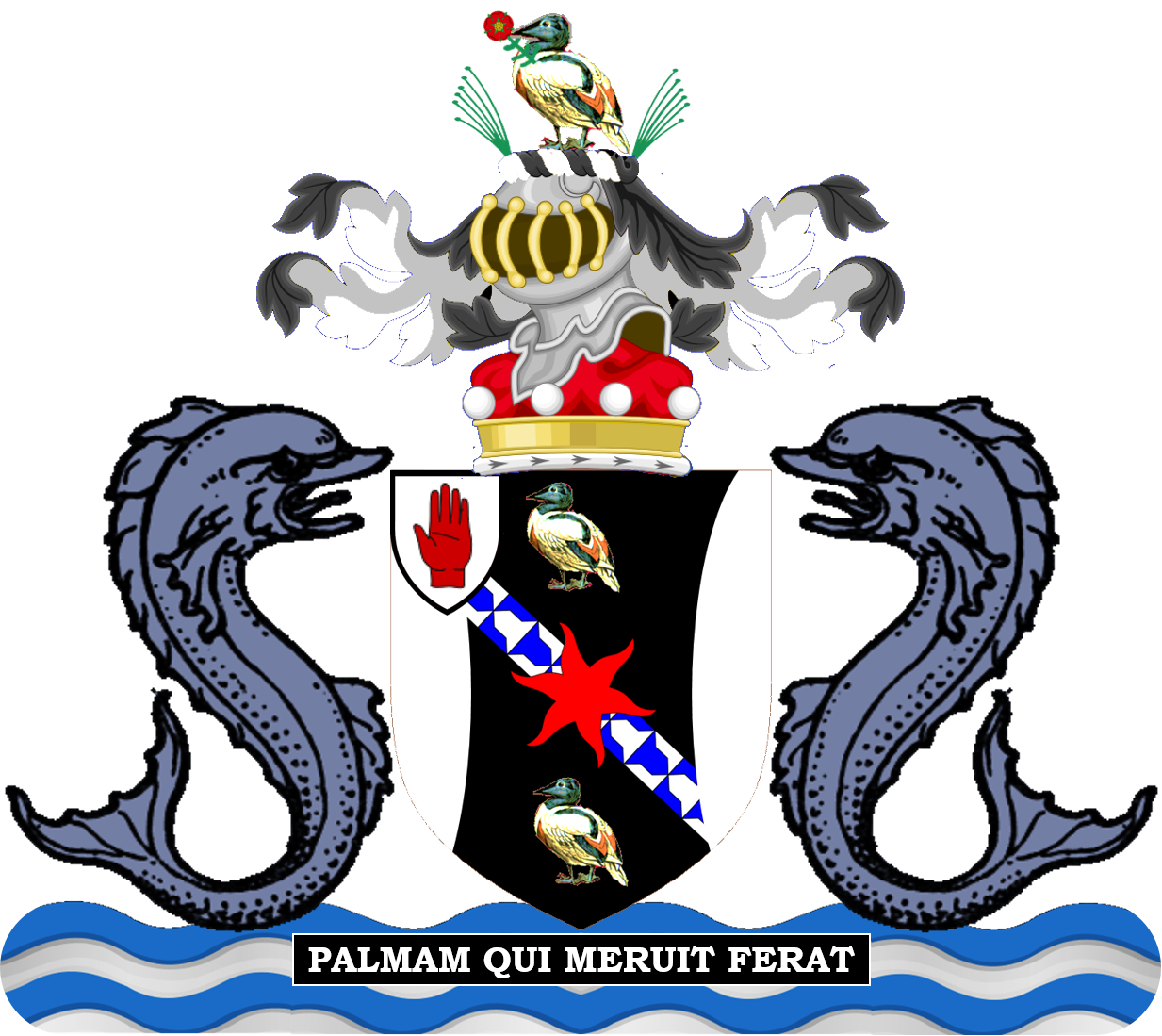 The armorial achievement of The Lord Remnant